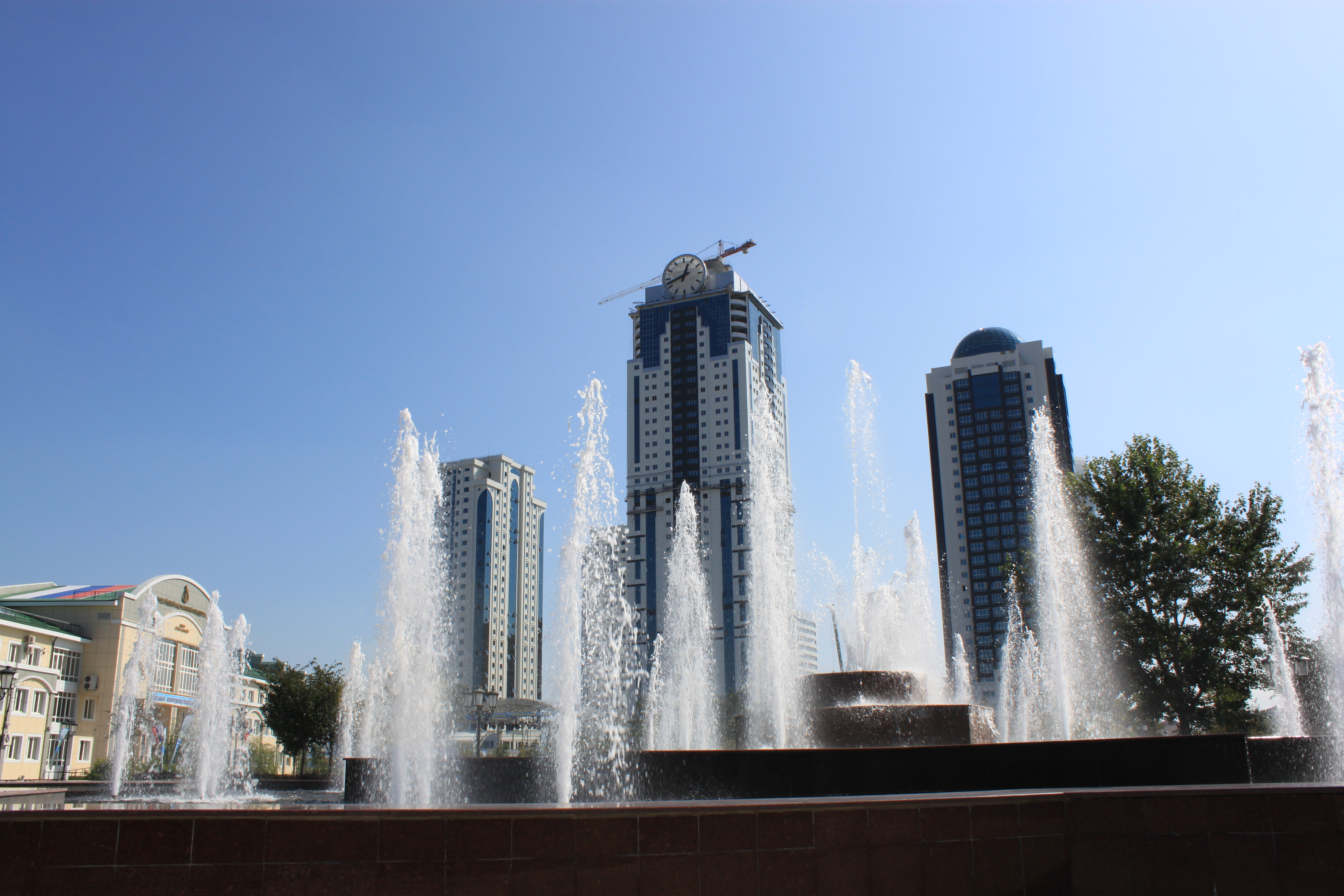 Chechnya Grozny City